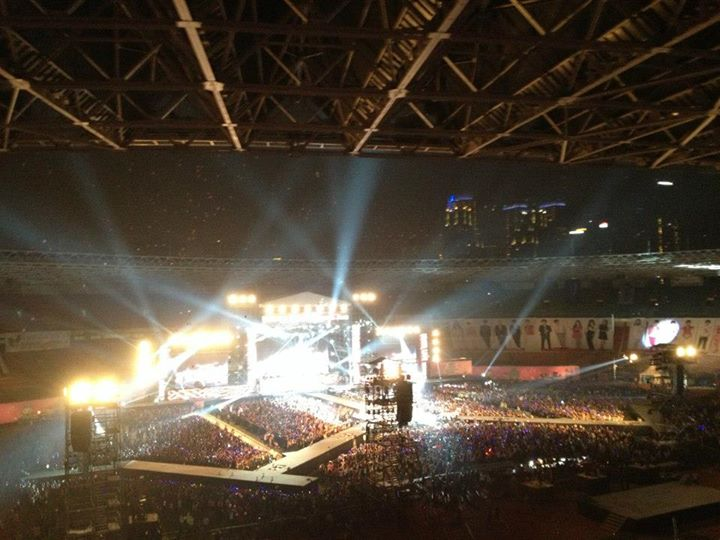 an artist perform on the stage during SMTown Live World Tour III in Gelora Bung Karno Stadium Jakarta